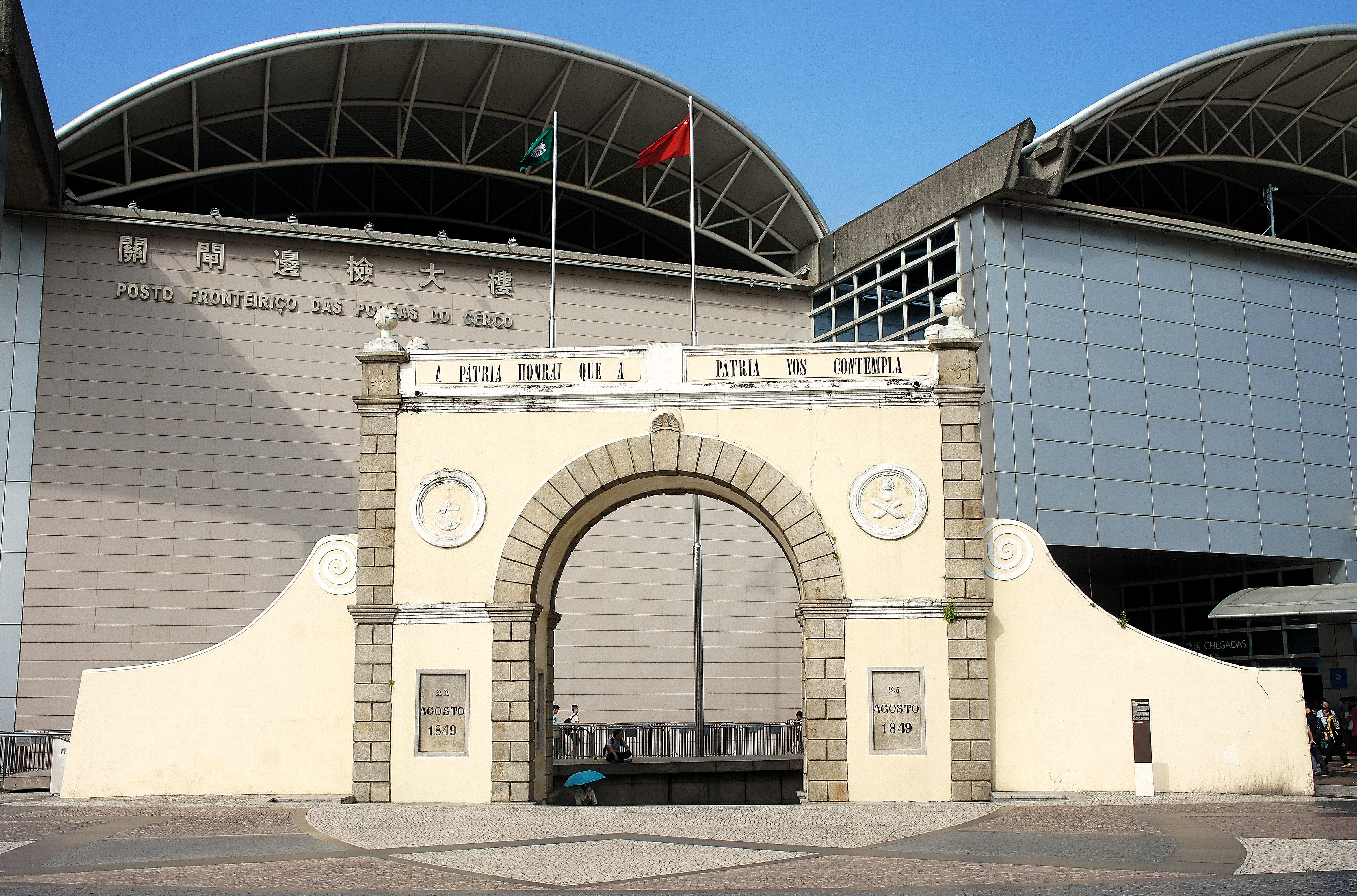 The Siege Gate (Macao, People's Republic of China).